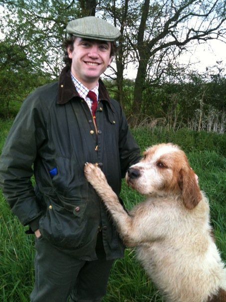 Huntsman (mink hunting) with his otterhound.